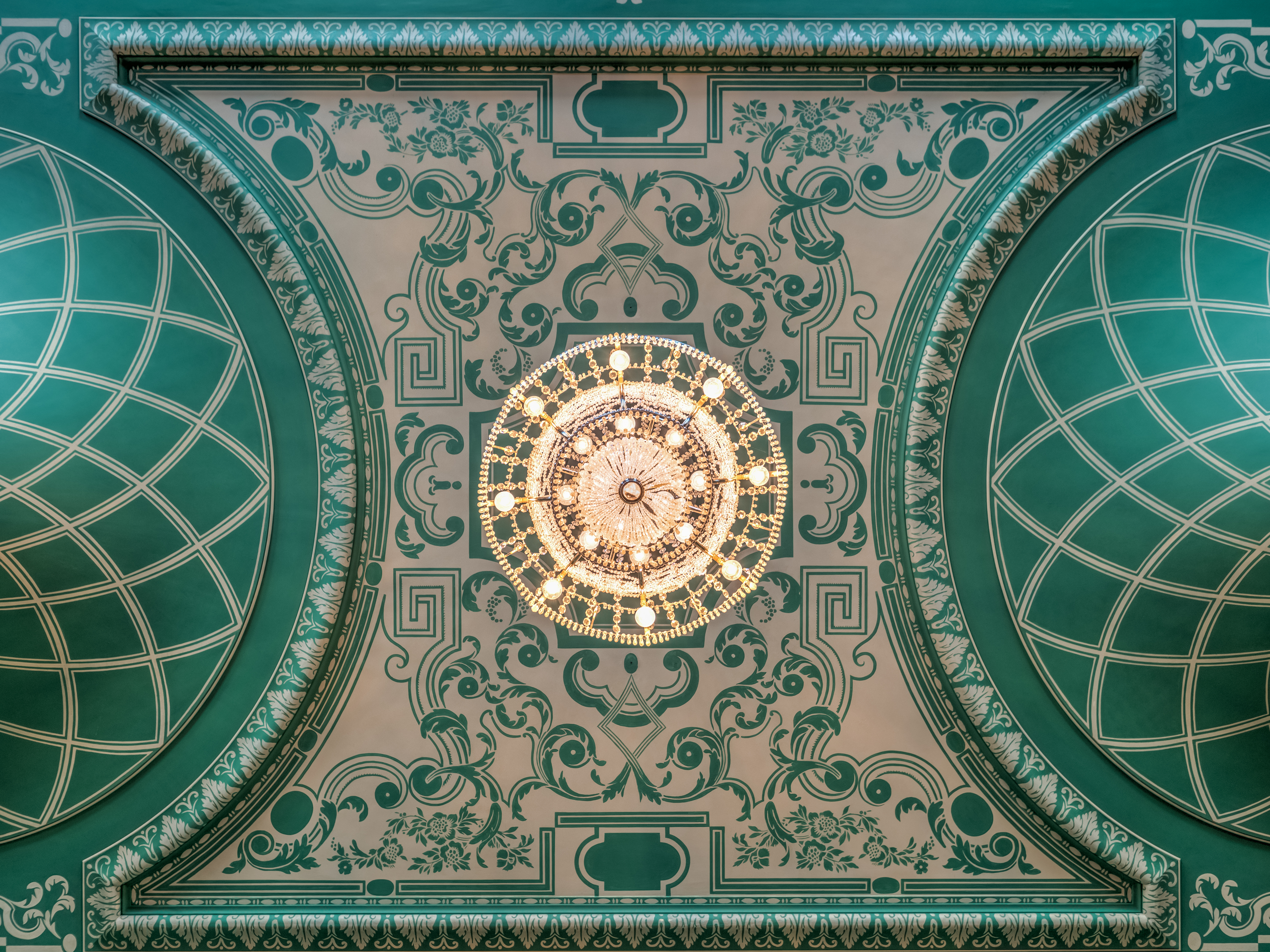 Ceiling of the Green Room in Bad Kissinger Regentenbau